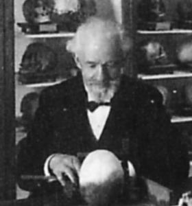 René Verneau in his laboratory in the Museo Canario, in Las Palmas de Gran Canaria, circa 1935.